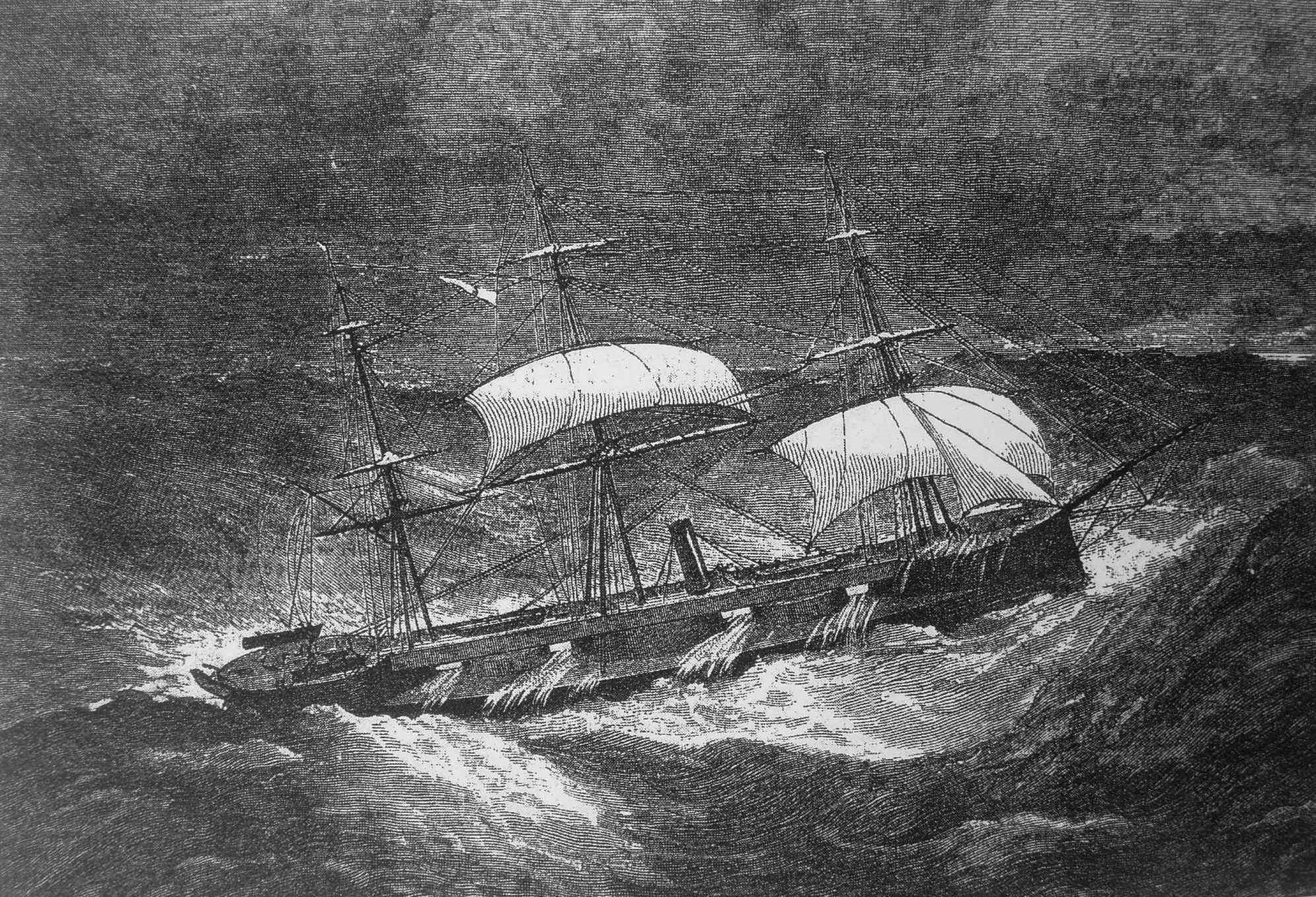 HMS Captain, launched 1869 and sank 1870